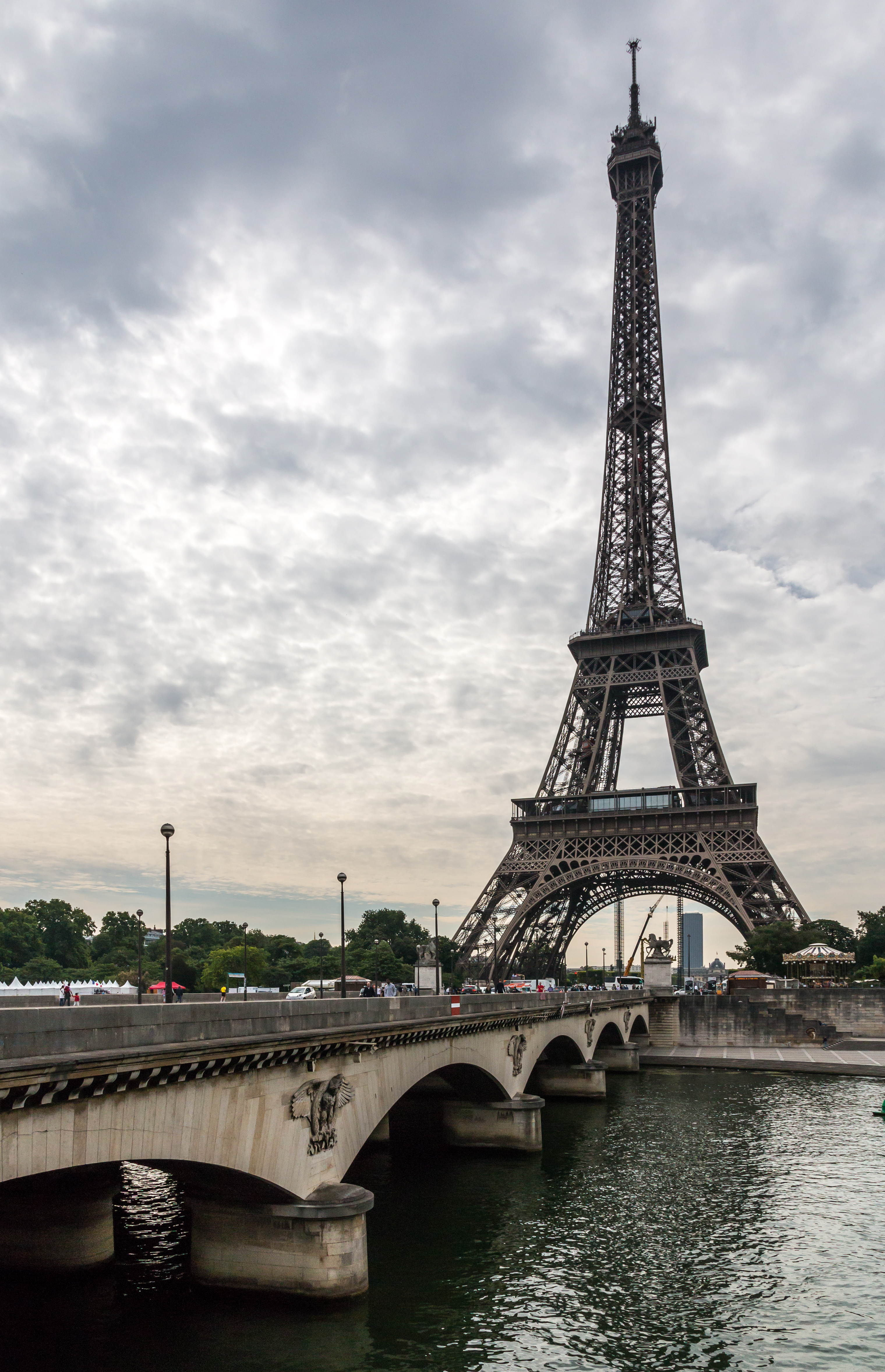 Eiffel Tower, Paris, France .